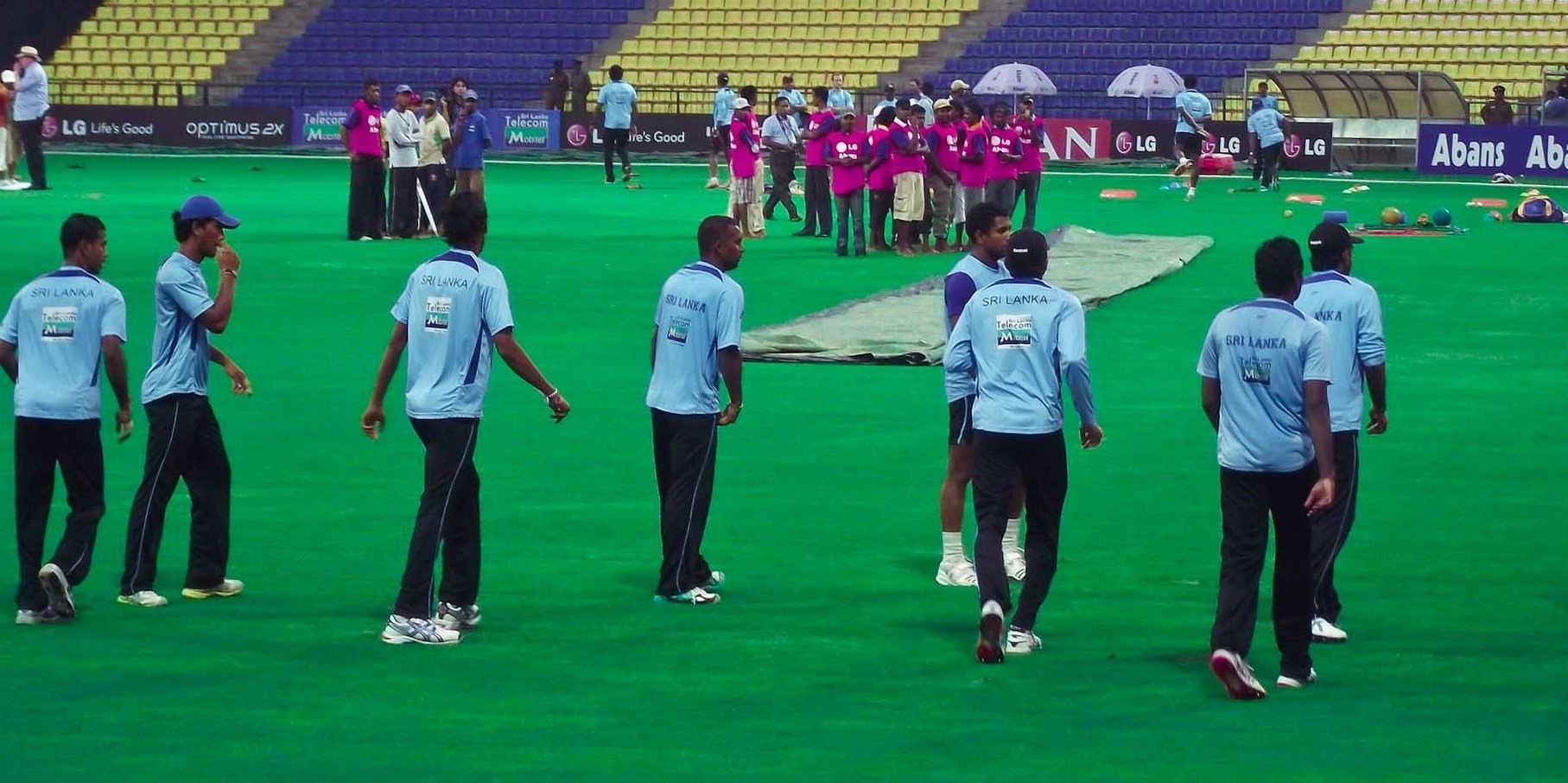 Sri Lankan team practicing before the Sri Lanka vs Australia 1st T20 on 6 August 2011.